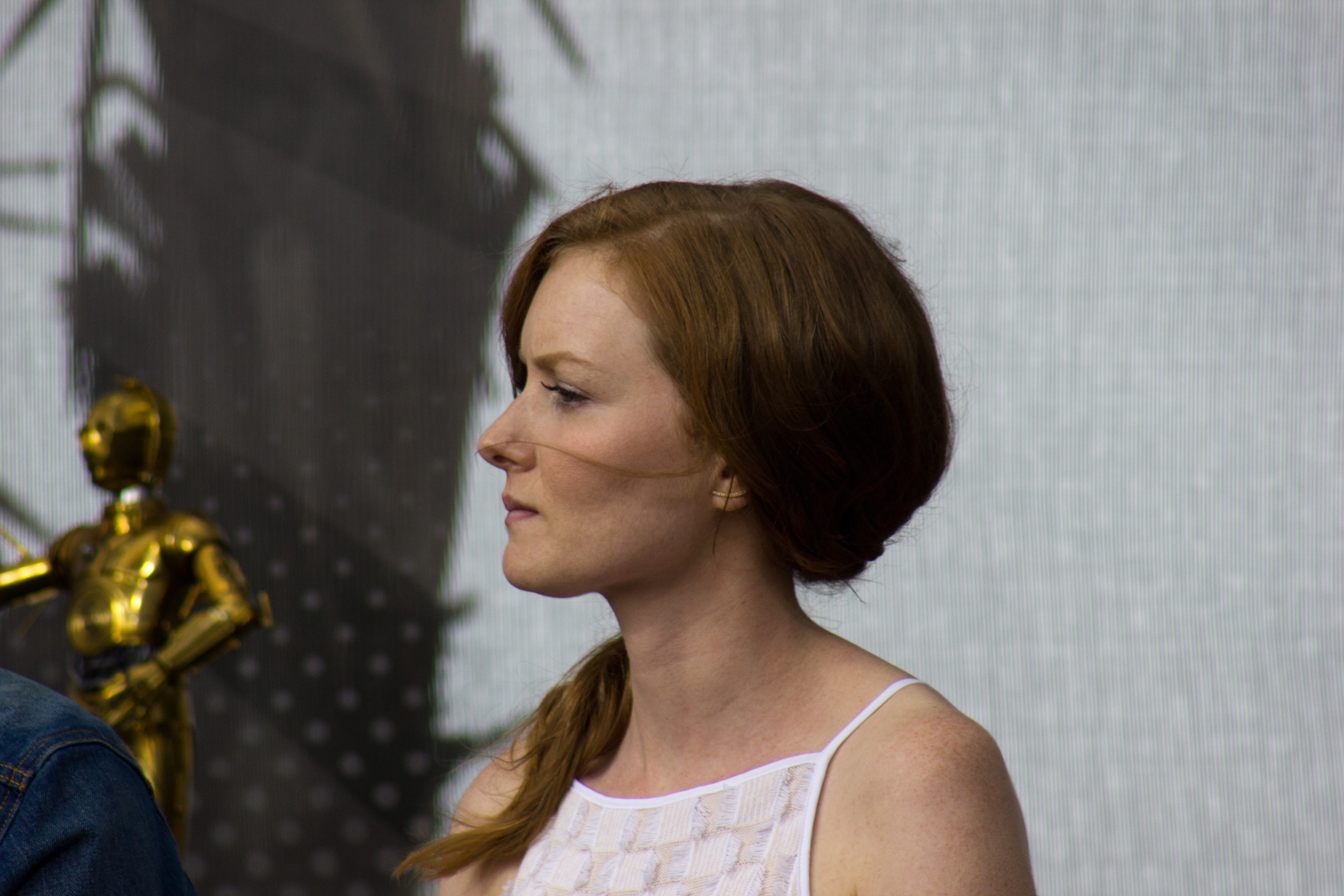 Wrenn Schmidt